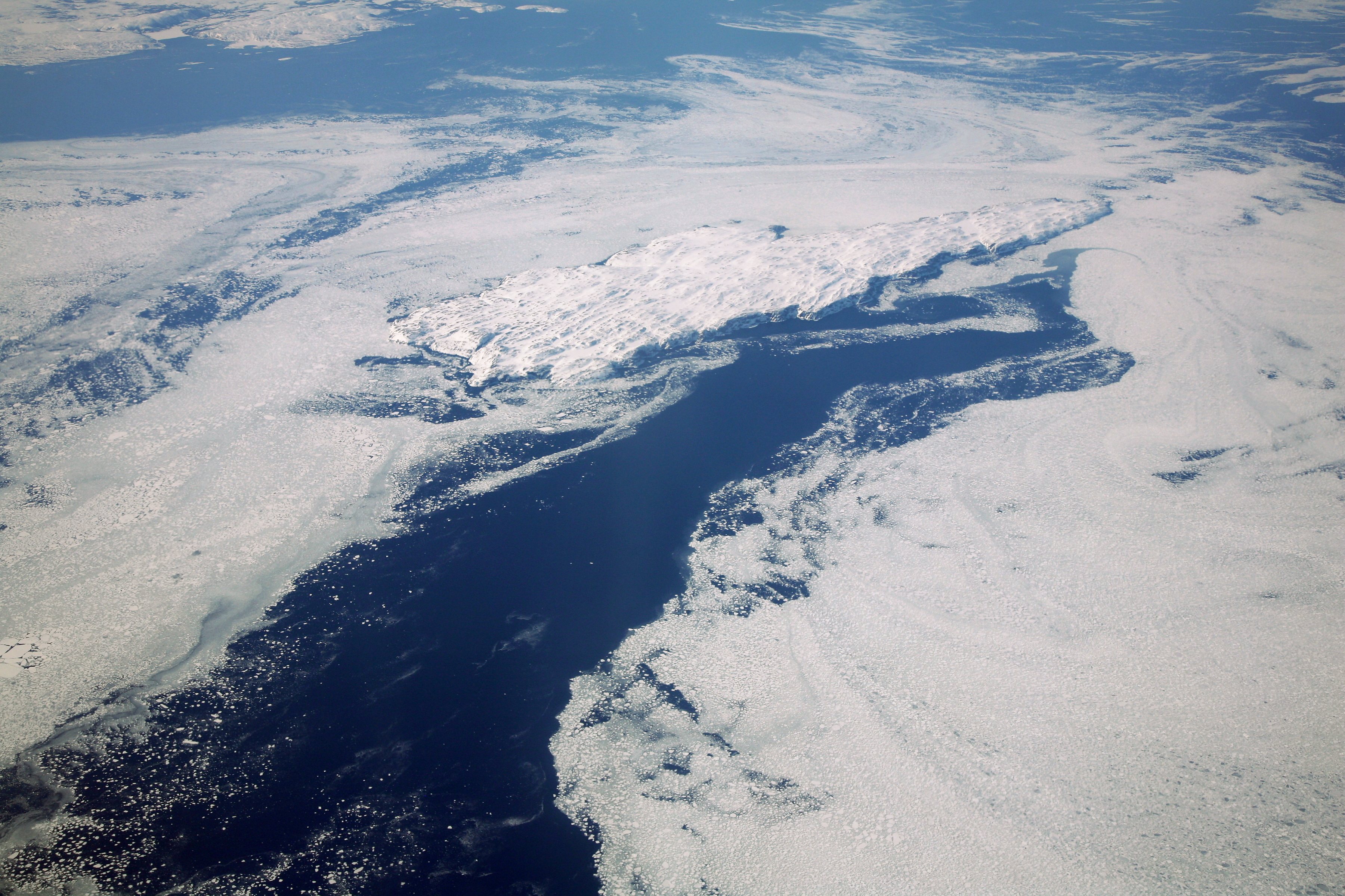 Belle Isle off the coast of Labrador